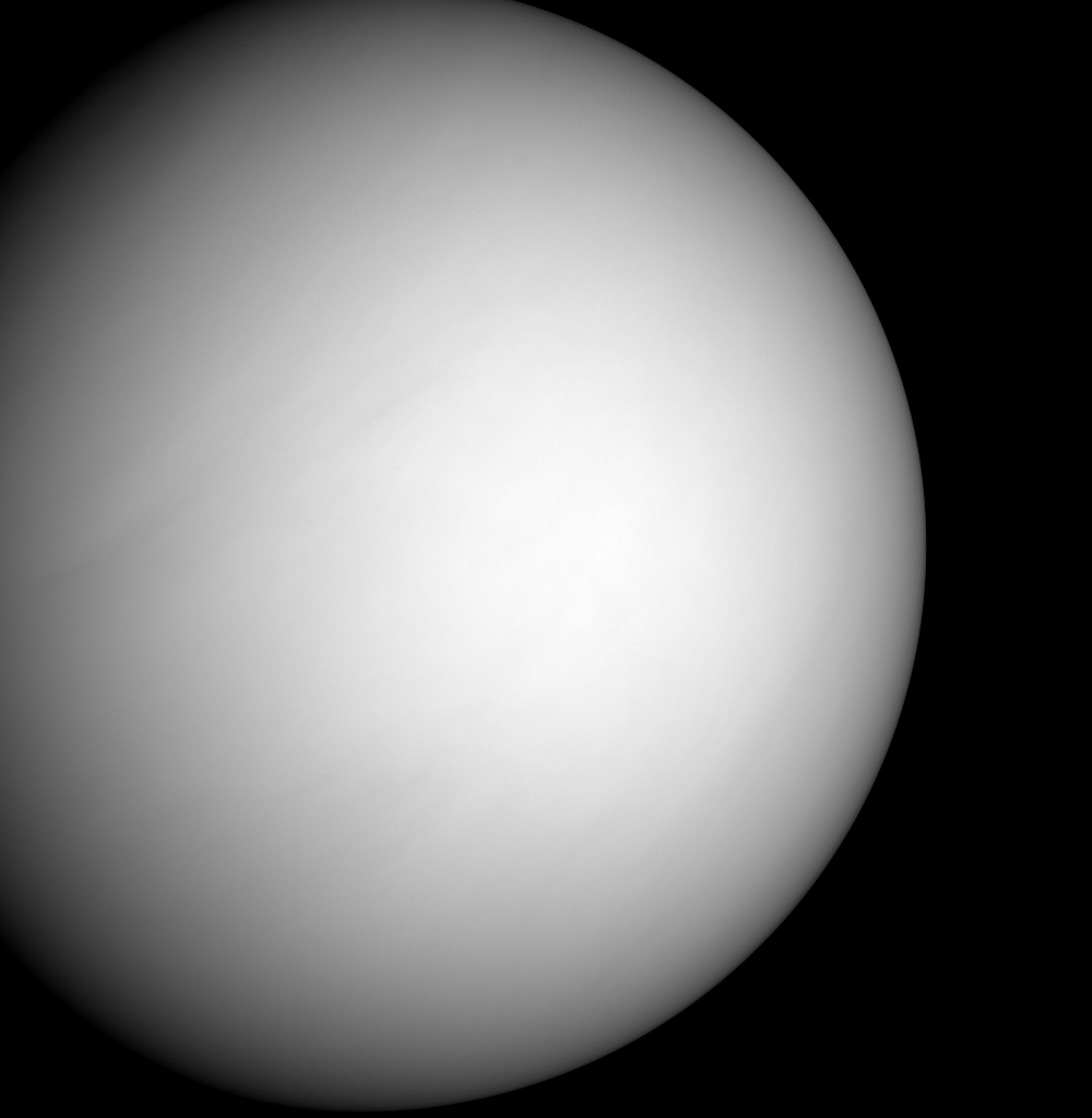 The MESSENGER spacecraft snapped a series of images as it approached Venus on June 5. The planet is enshrouded by a global layer of clouds that obscures its surface to the MESSENGER Dual Imaging System (MDIS) cameras. This single frame is part of a color sequence taken to help the MESSENGER team calibrate the camera in preparation for the spacecraft's first flyby of Mercury on January 14, 2008. Over the next several months the camera team will pore over the 614 images taken during this Venus encounter to ascertain color sensitivity and other optical properties of the instrument. These tasks address two key goals for the camera at Mercury: understanding surface color variations and their relation to compositional variations in the crust, and ensuring accurate cartographic placement of features on Mercury's surface. Preliminary analysis of the Venus flyby images indicates that the cameras are healthy and will be ready for next January's close encounter with Mercury.